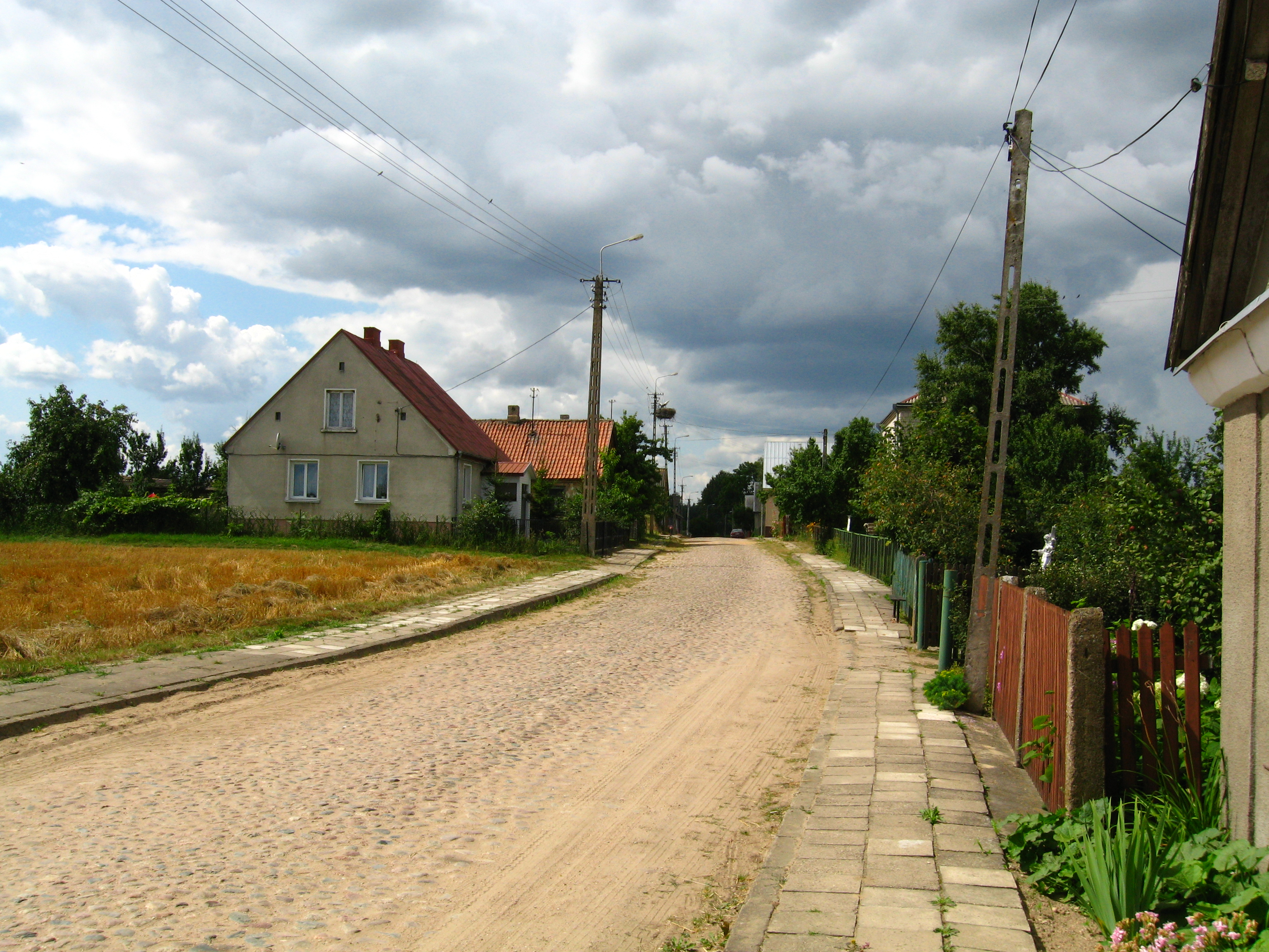 Czechowizna